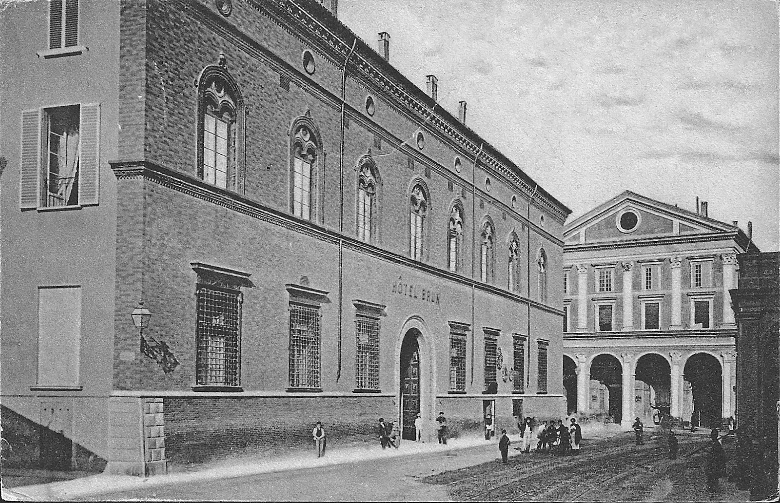 Ghisilieri Palace